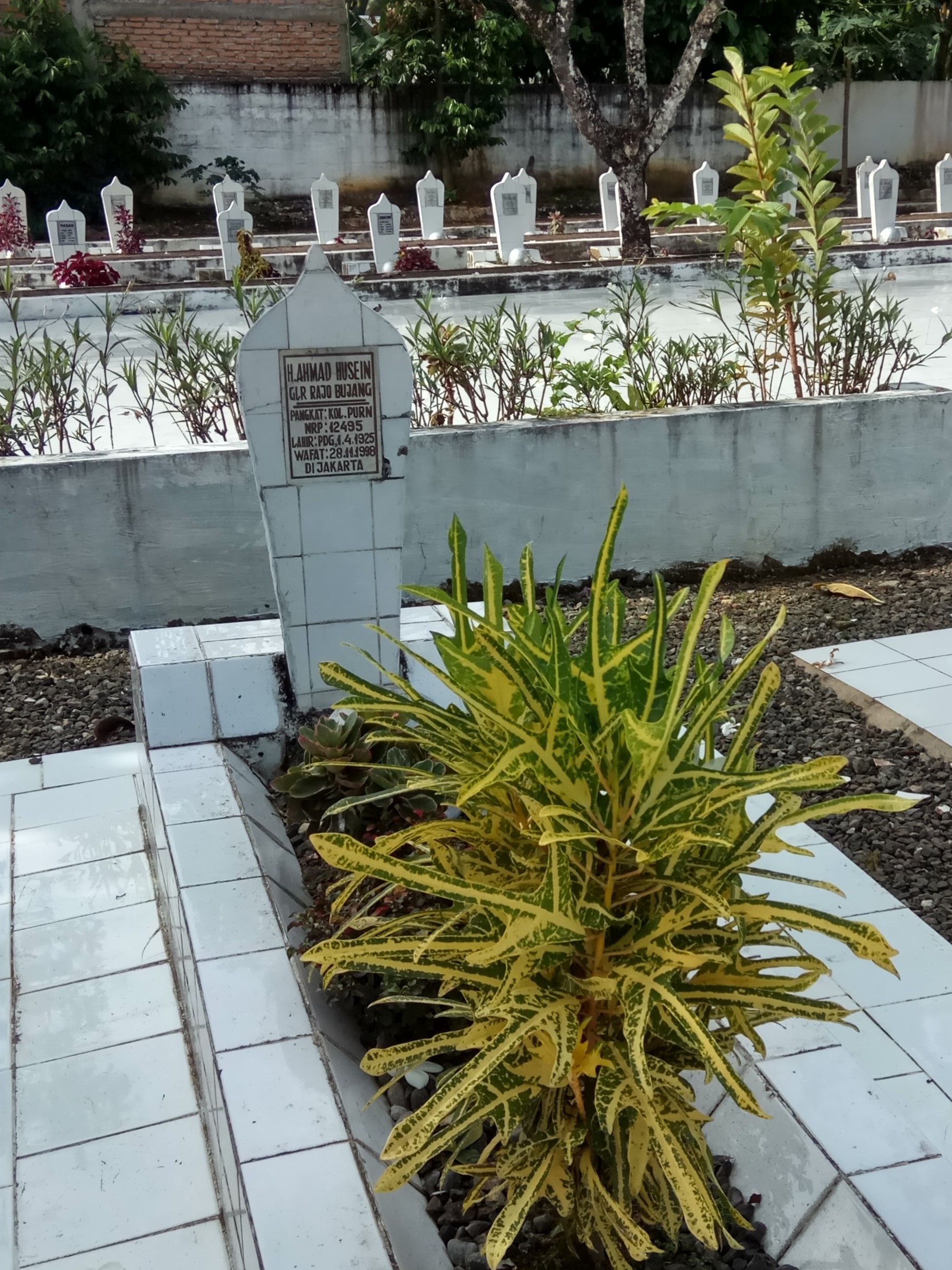 Makam Ahmad Husein